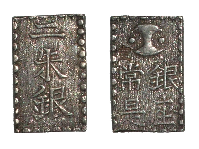 Ansei-2shugin